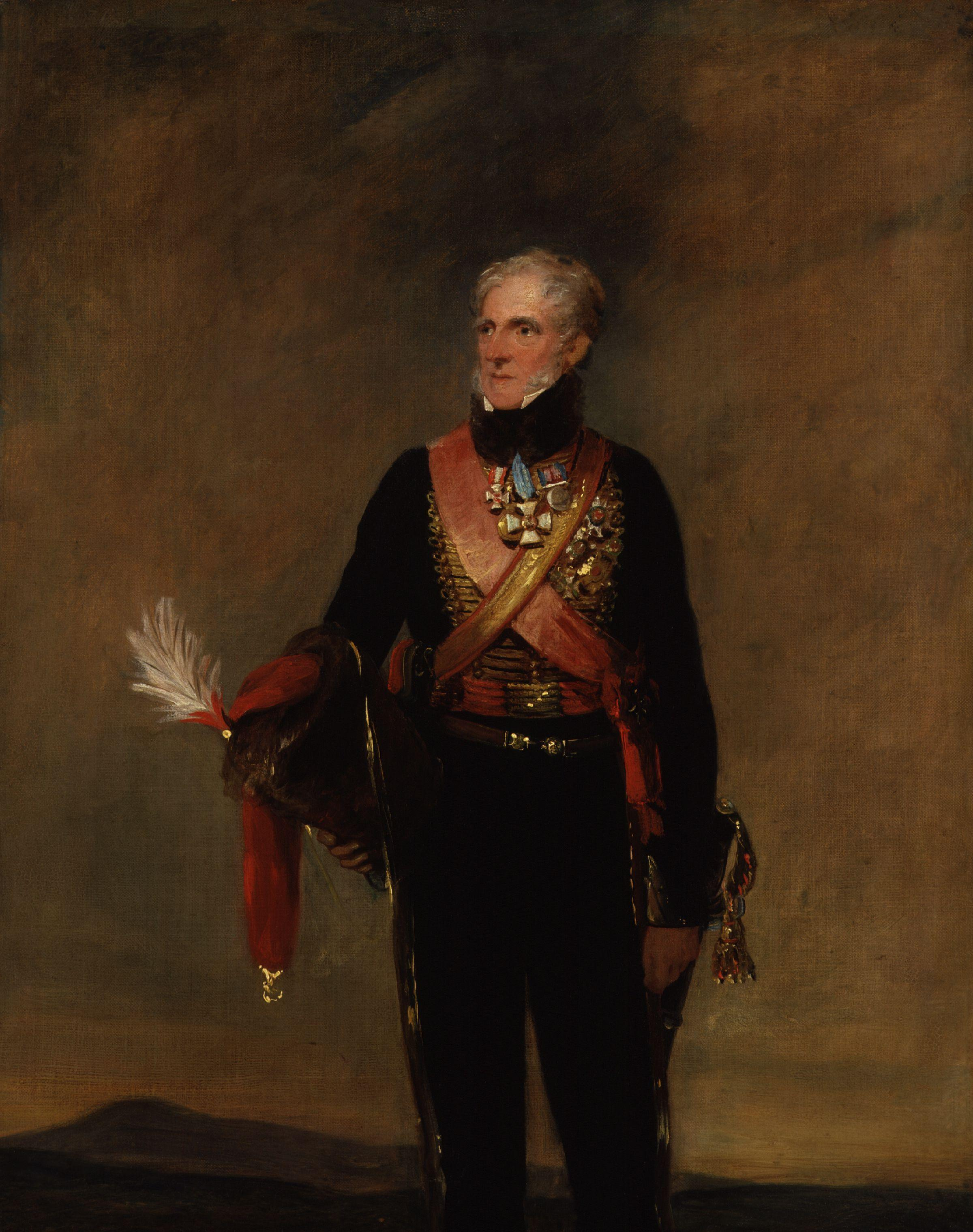 Henry William Paget, 1st Marquess of Anglesey, by William Salter (died 1875). All images in this batch have been confirmed as author died before 1939 according to the official death date listed by the NPG.